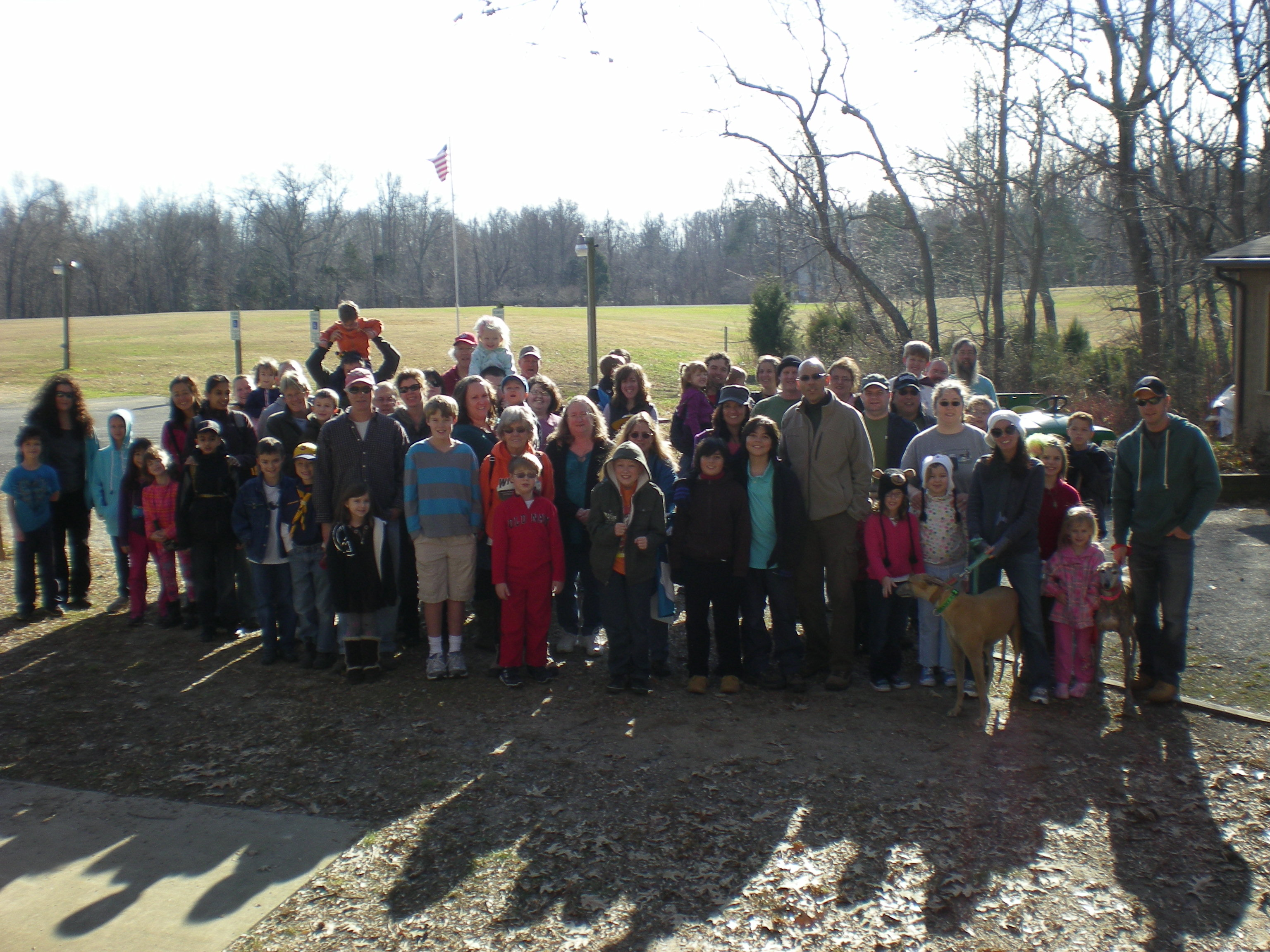 Hikers get ready to search for ornaments hidden on the trail as part of the First Day Hike